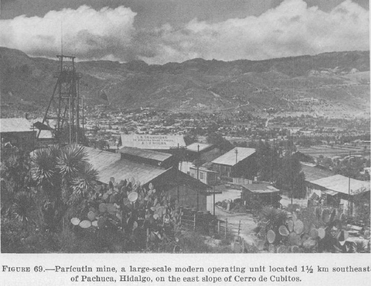 Paricutin Mine